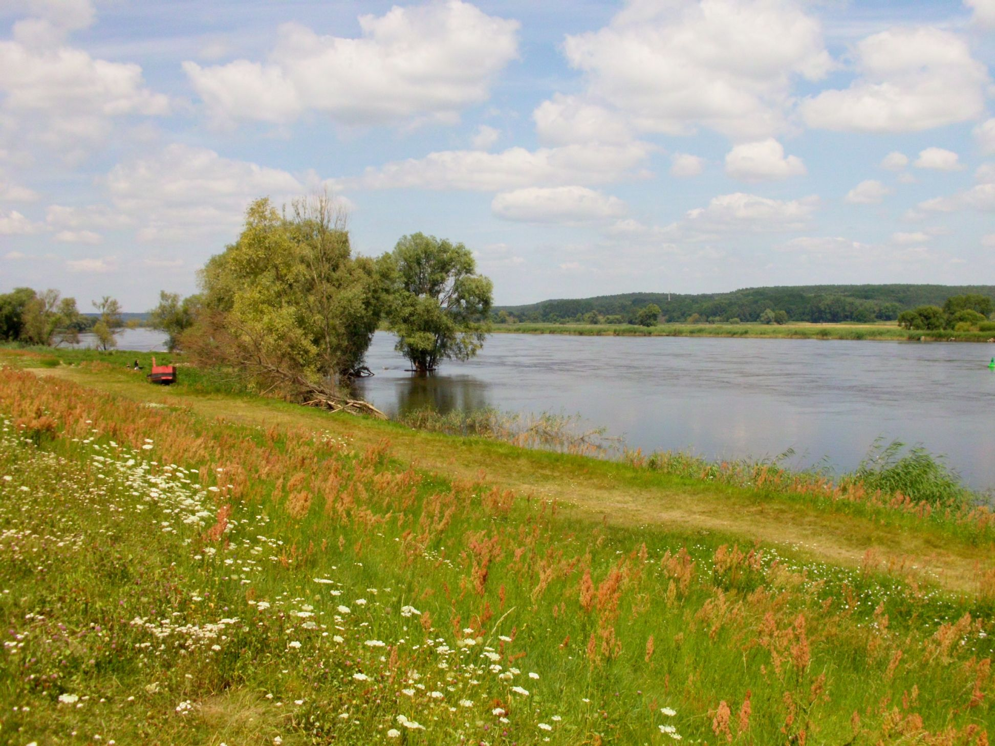 Oder River dike in Zollbrücke